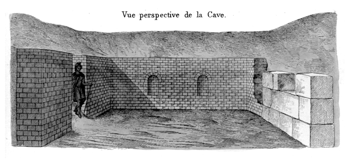 Drawing of archaeological excavation of the Roman villa Onderste Herkenberg in Meerssen near Maastricht, the Netherlands. The drawing is by the leader of the excavation in 1865, the priest Jozef Habets (1829-1893) and was first published in 1871.